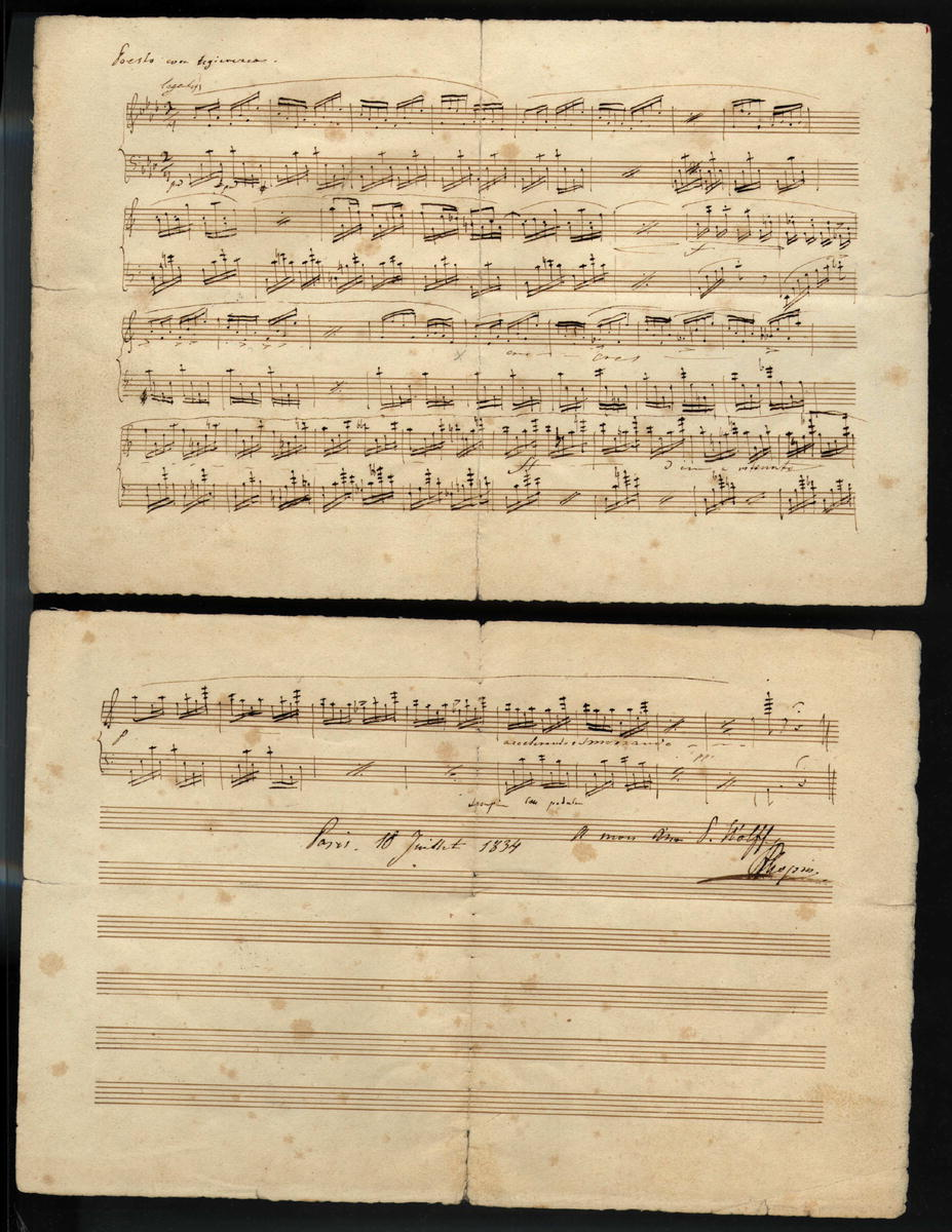 [Prelude in A-Flat Major, op. posth.], for piano solo. Manuscript copy in Chopin's handwriting. Two pages; one image.